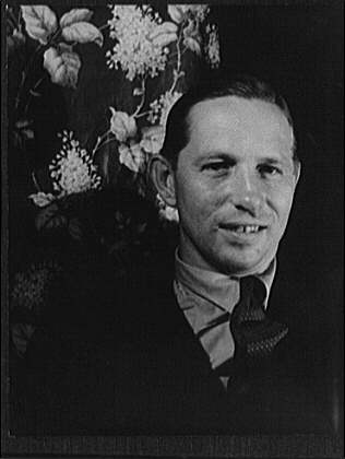 Louis Bromfield photographed by Carl Van VechtenLouis Bromfield